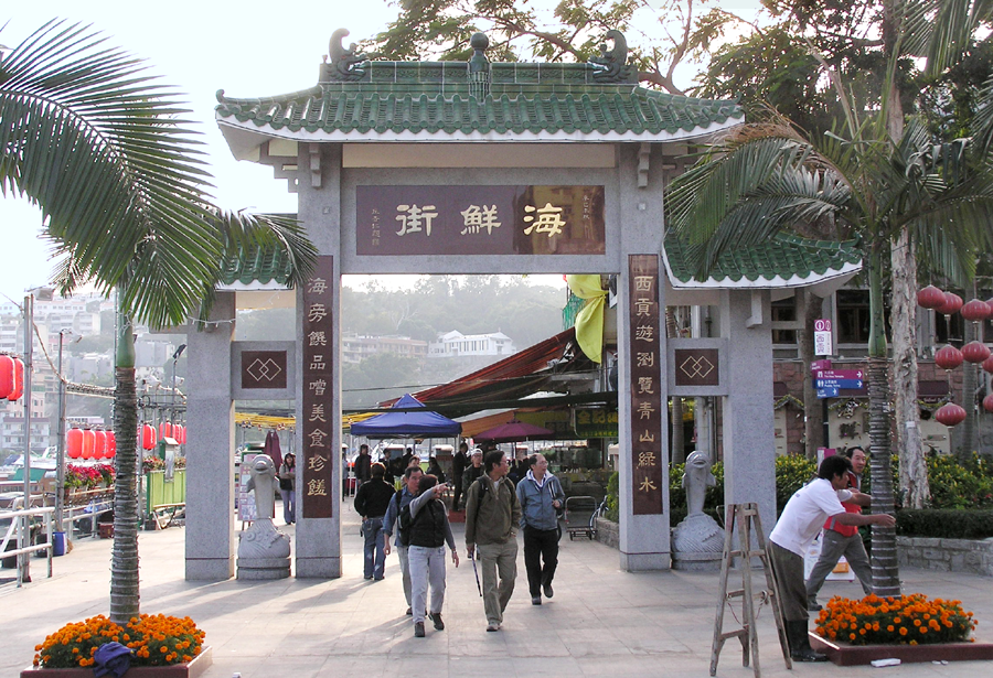 The "Seafood Street" in the Sai Kung Hoi Pong Square in Sai Kung Town, Hong KongThe photograph was taken by Alan Mak on December 16th, 2005.